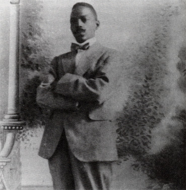 photo of Patricio Ballagas